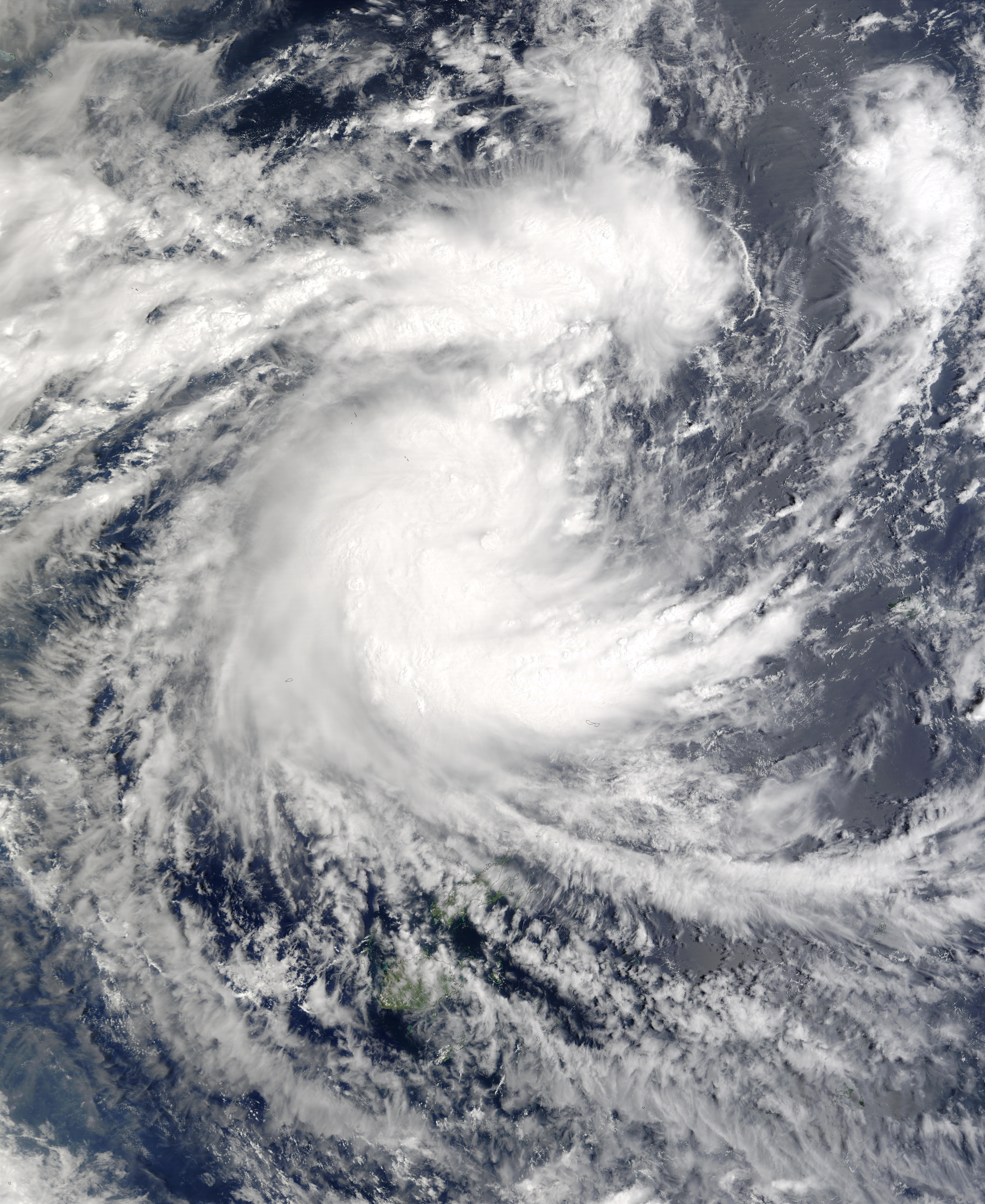 On January 13, 2003, Tropical Cyclone Ami was located approximately 265 miles (307 km) northeast of Suva on Fiji and was packing winds of 89 mph (142 km/hr) with gusts to 104 mph (166 km/hr). Ami was expected to intensify over the following 12 hours, but then quickly undergo a transition to an extratropical system in 24-36 hours. This image was acquired by the Moderate Resolution Imaging Spectroradiometer (MODIS) on the Terra satellite.